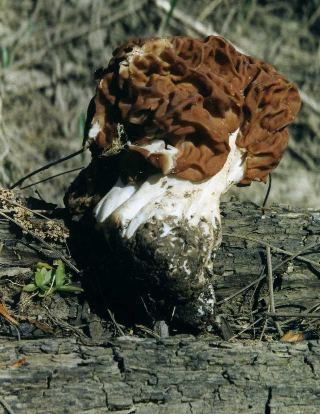 The "false morel" Gyromitra caroliniana (Bosc) Fr. Specimen photographed in Holla Bend Wildlife Refuge, Pope County, Arkansas, USA.